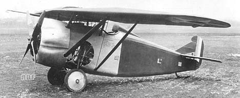 Dayton-Wright XPS-1 was the first army plane with retractable landing gear.